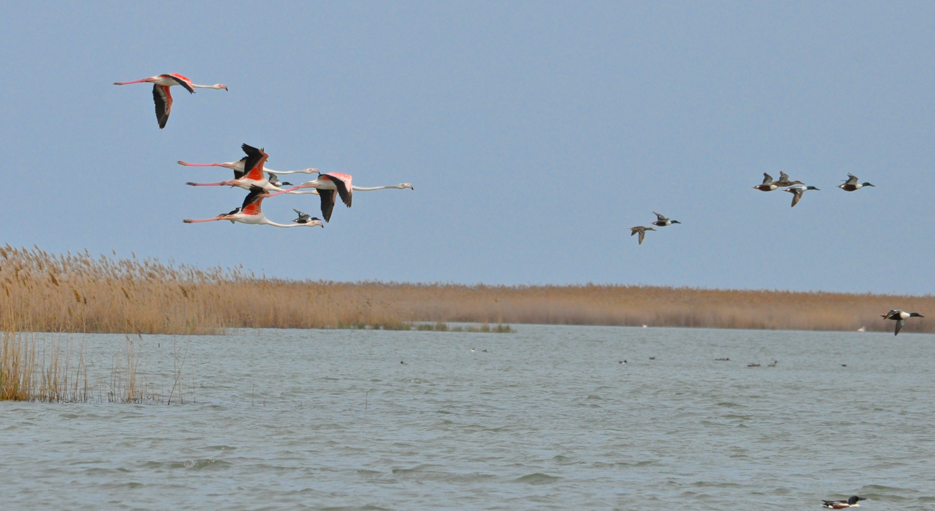 Flamingoes in Shirvan National Park. 2